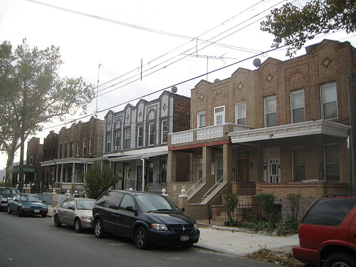 Semi-detached rowhouses on a street in East New York, Brooklyn.